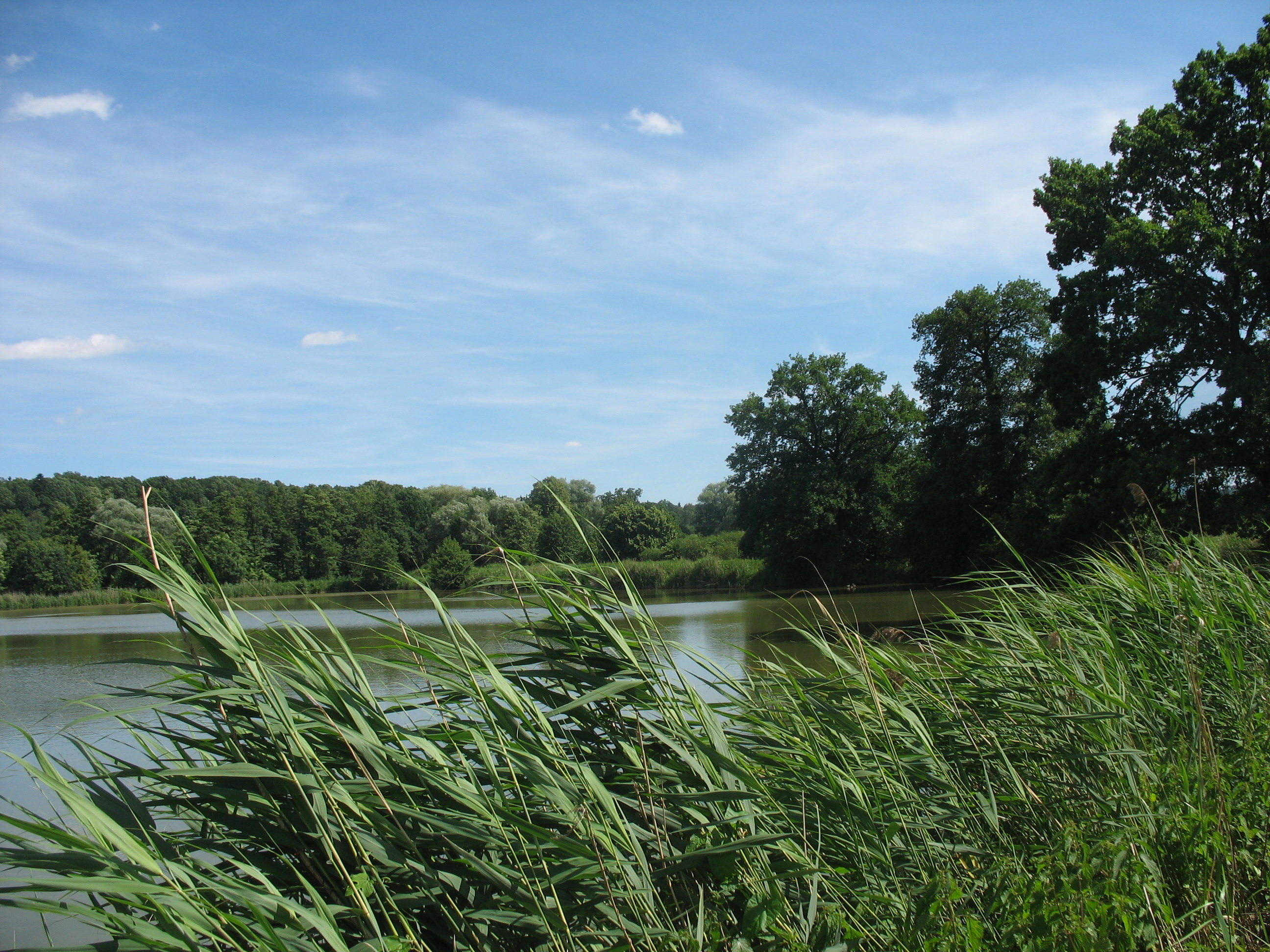 Ponds in Dębowiec near Knajka river